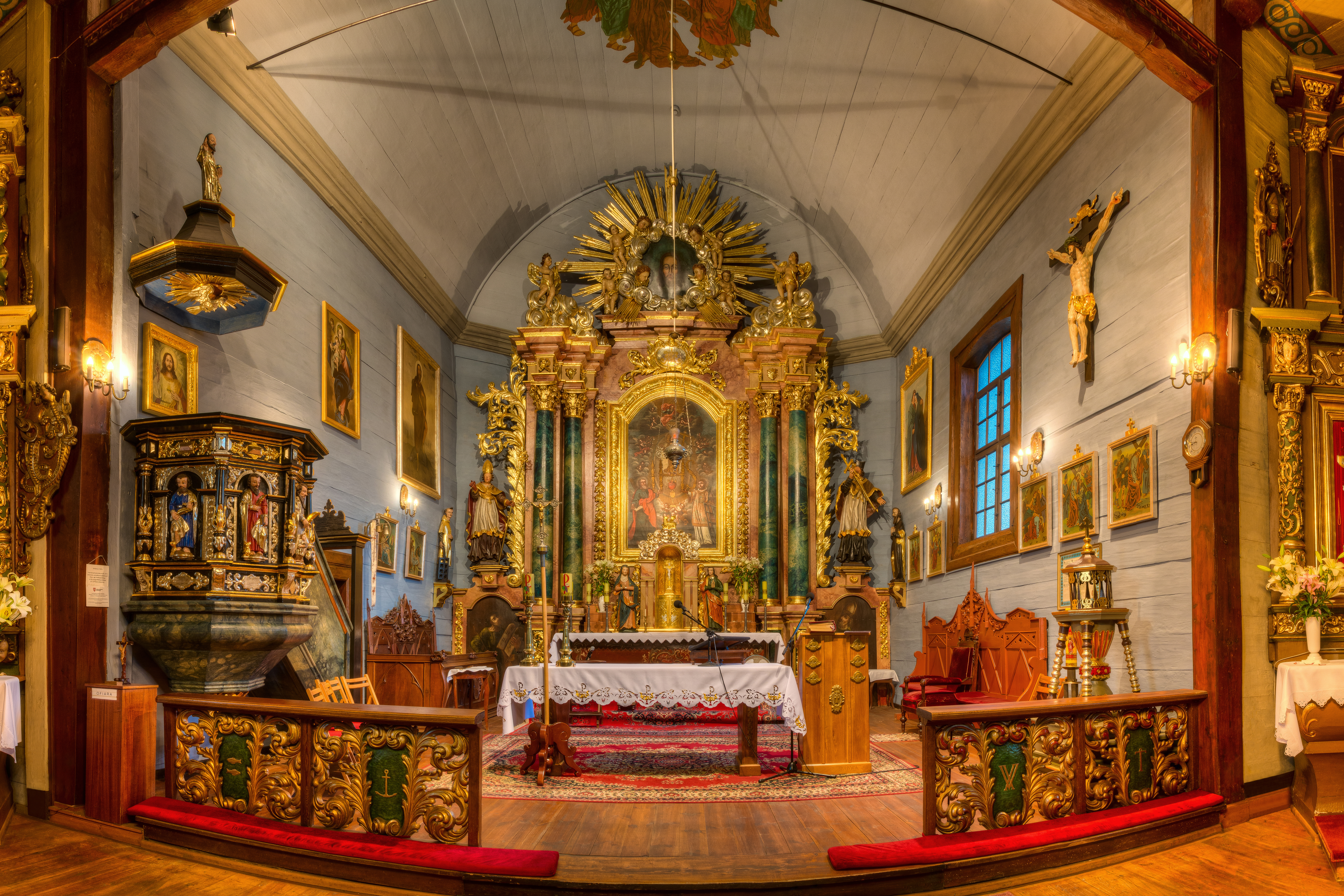 Altar of the church in Baranow.